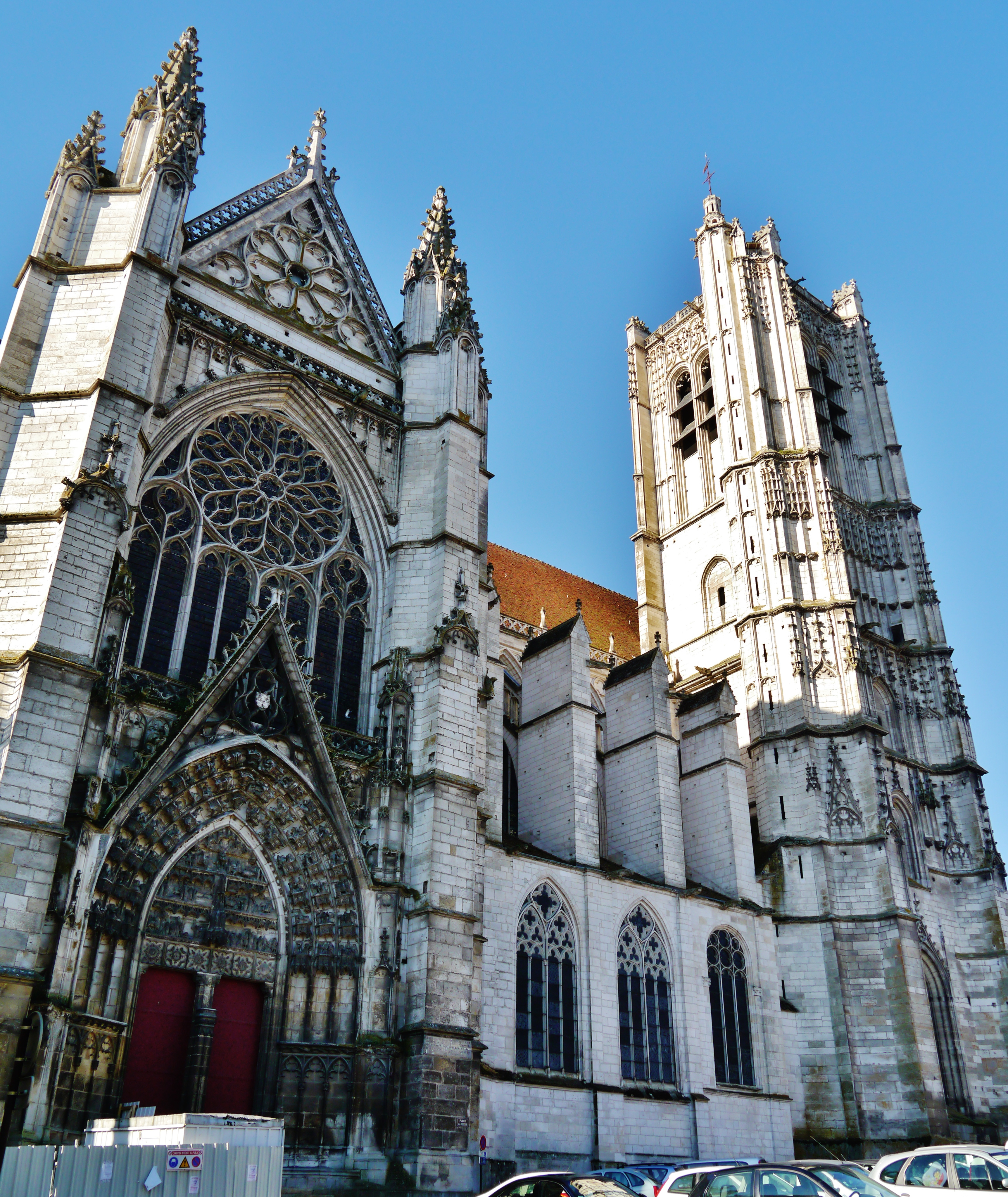 North Side of the Cathedral of St. Stephen, Auxerre, Département of Yonne, Region of Burgundy (now Burgundy-Franche-Comté), France